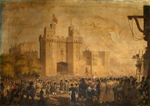 Arrival of Prisoners at Lancaster Castle. For further details